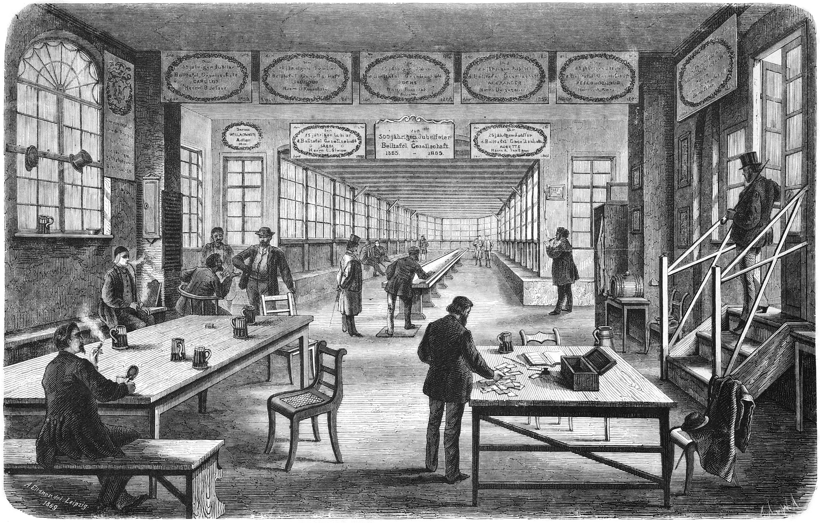 caption: "In der Belltafel zu Breslau. Nach der Natur aufgenommen von Adolf Eltzner."